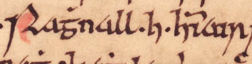 An excerpt from folio 39r of Oxford Bodleian Library MS Rawlinson B 489 (the Annals of Ulster). The excerpt concerns Ragnall ua Ímair, King of Waterford (died 1035).